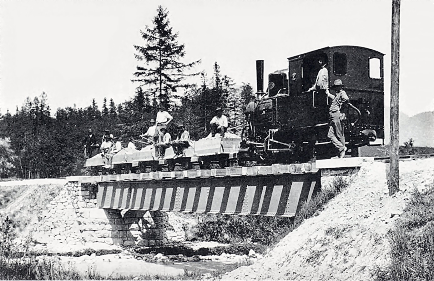 Salzkammergut-Lokalbahn No.2 with works train on the Weißenbach bridge during construction